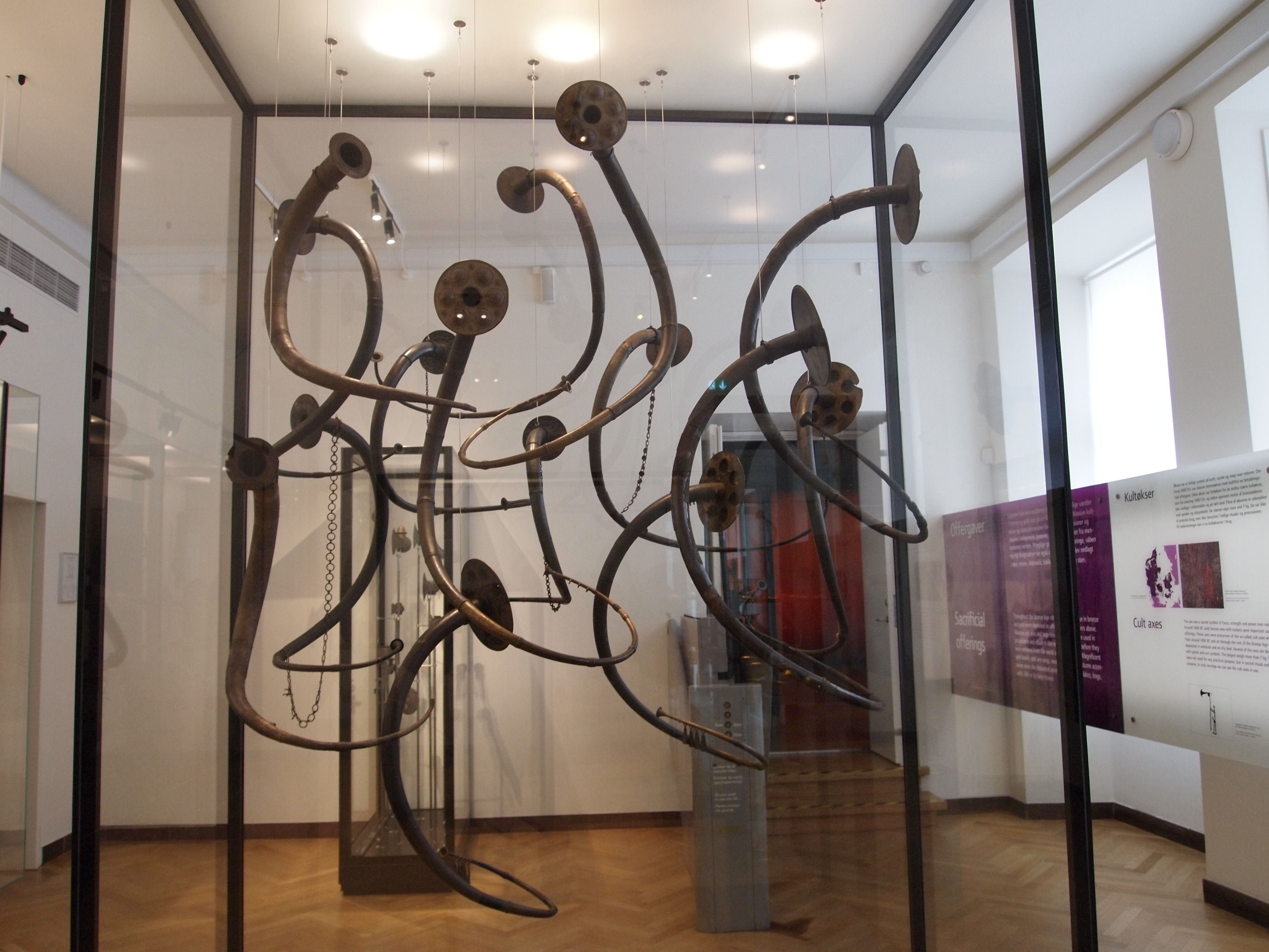 Pictures taken at the National Museet - The National Museum - Copenhagen Denmark during the Wikipedia Loves Nationalmuseet